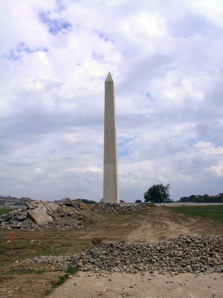 Construction of security enhancements for the Washington Monument in 2004